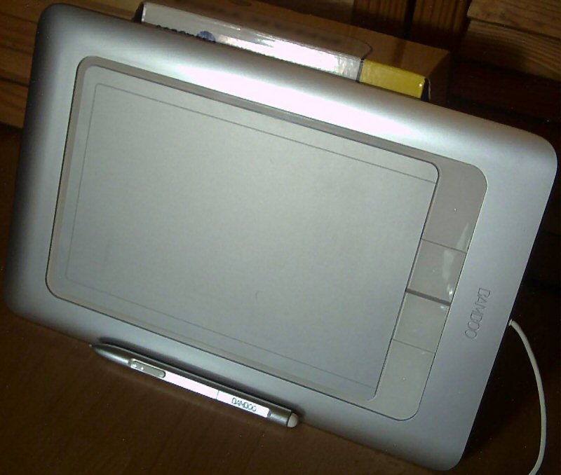 Wacom Bamboo Fun Medium Pen and Touch